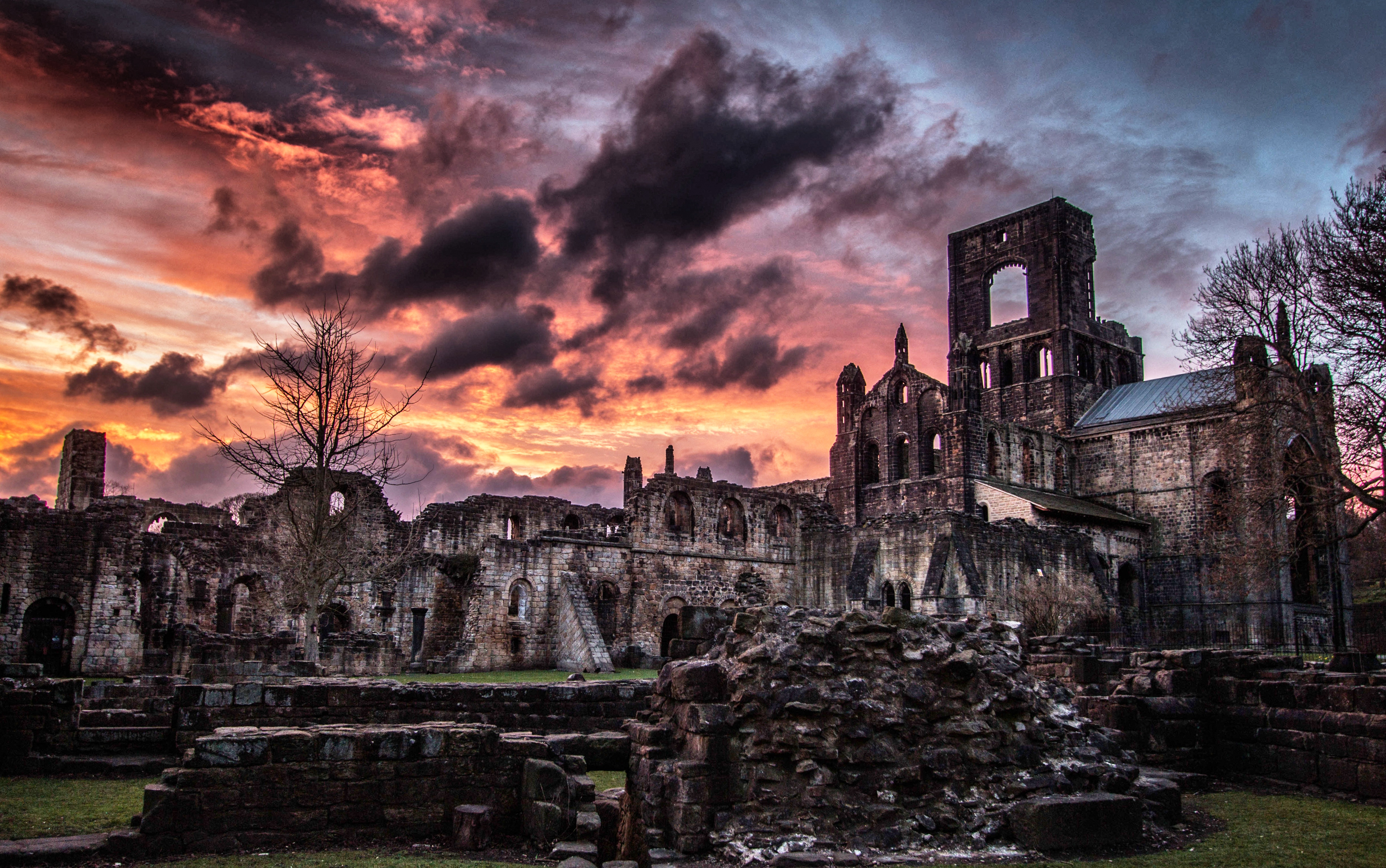 Kirkstall Abbey